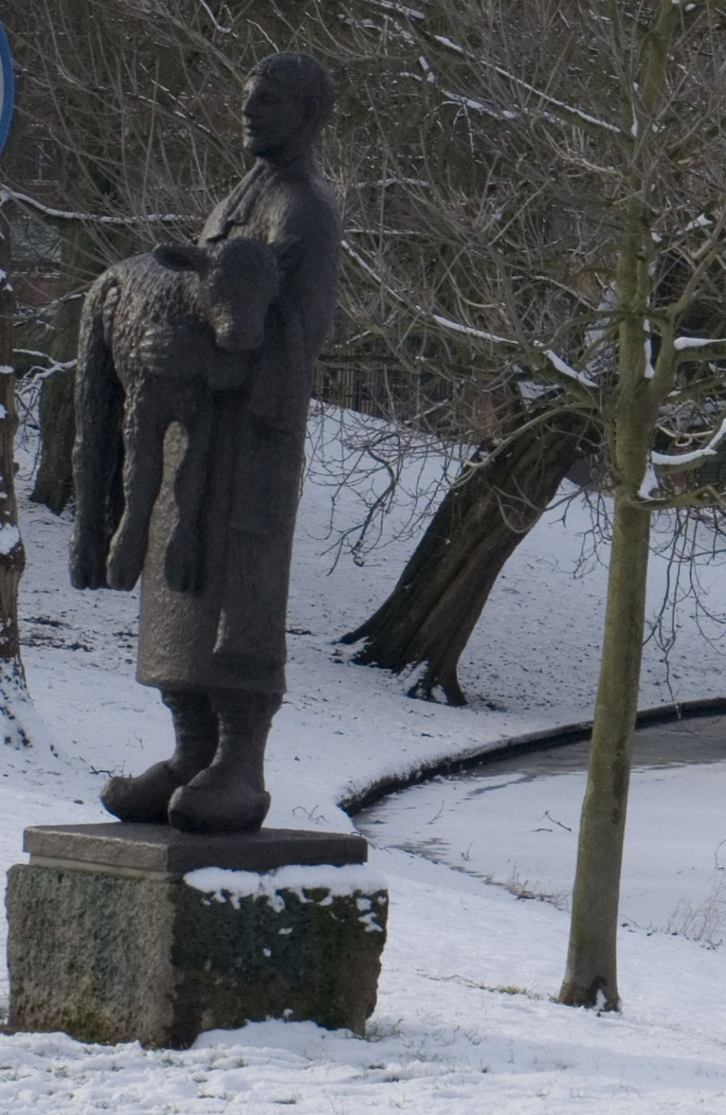 Alkmaar - Zevenhuizen - View SW on 'Man met Kalf' Statue 1955 by Gerrit Bolhuis